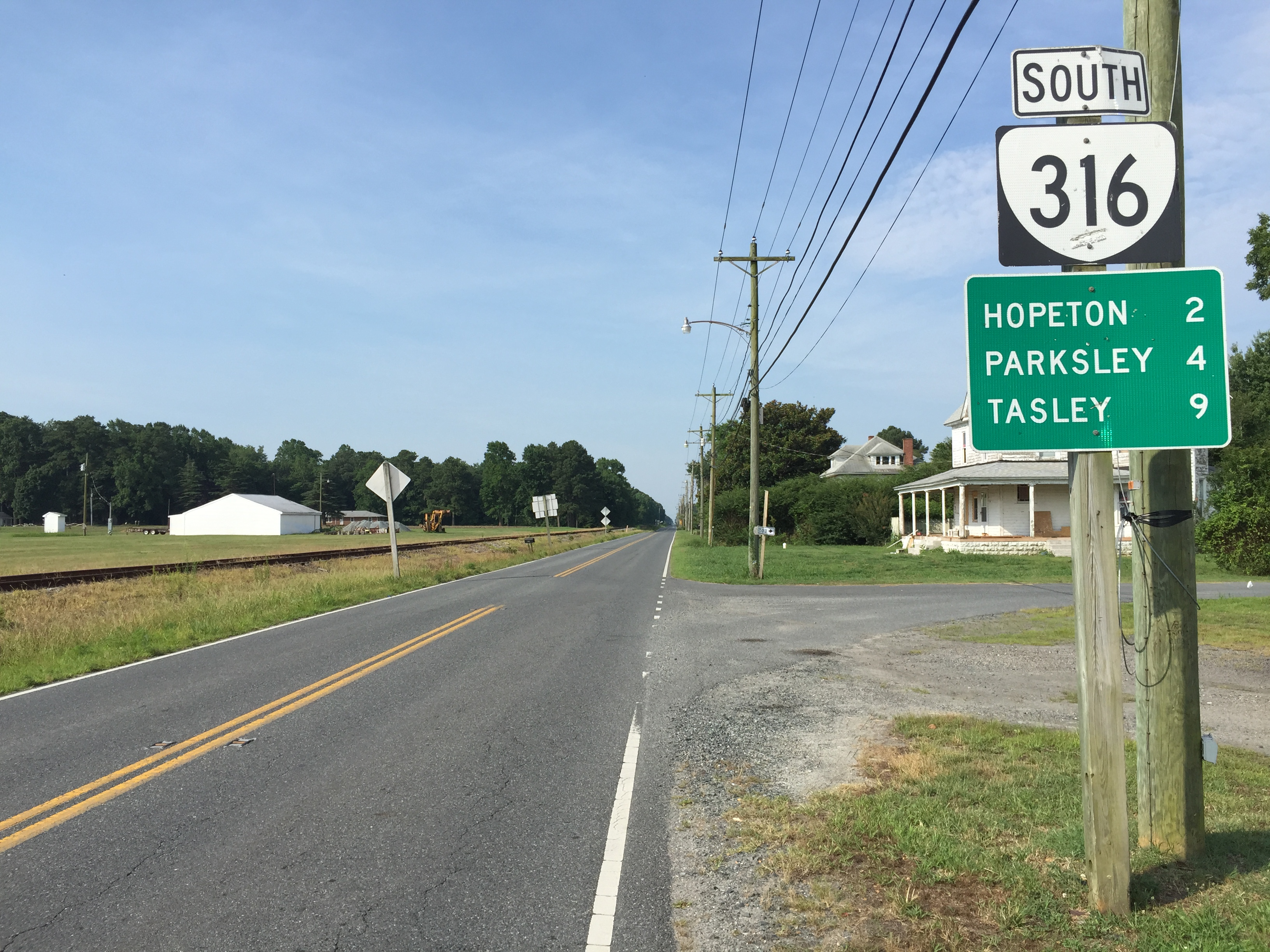 View south along Virginia State Route 316 (Bayside Drive) at Marshall Street (Virginia State Secondary Route T-2503) in Bloxom, Accomack County, Virginia